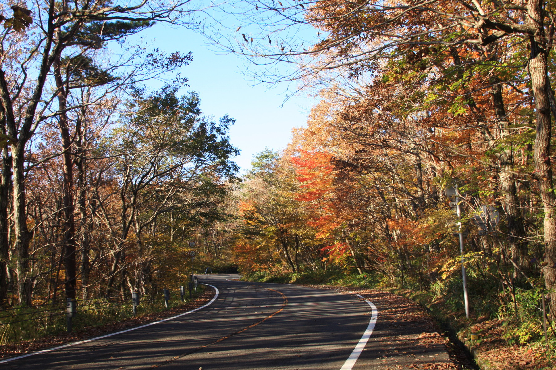 Yumoto, Nasu, Nasu District, Tochigi Prefecture 325-0301, Japan